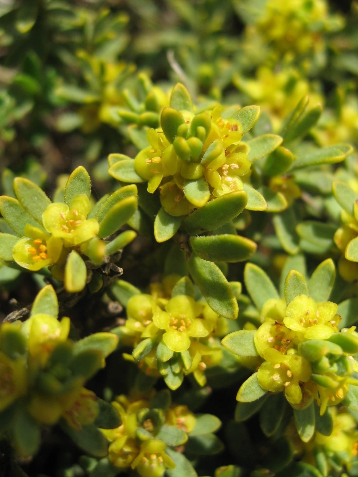 Thymelaea tinctoria ssp. nivalis